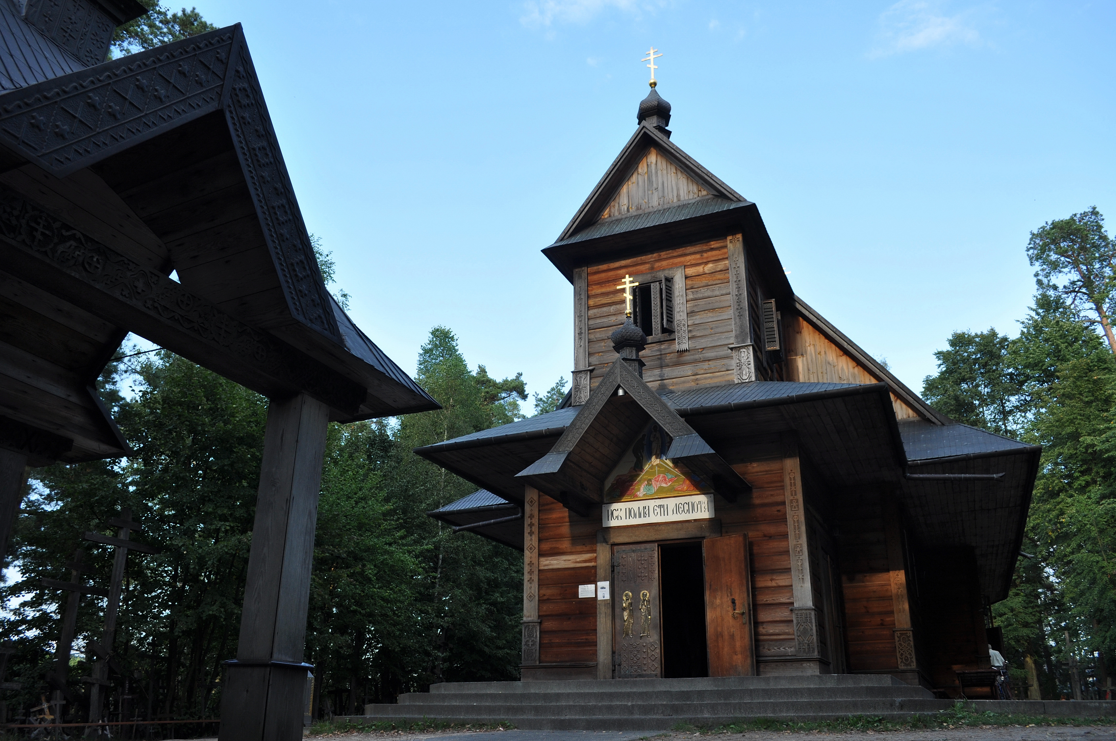 Wooden church in Grabarka